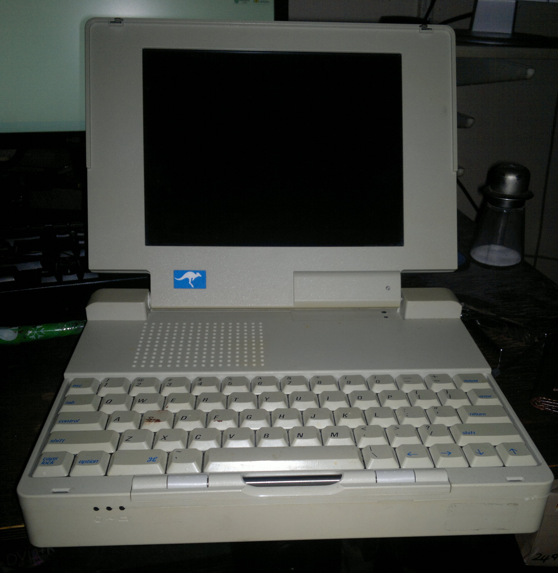 Am Outbound Systems model 2000 "Notebook" laptop. It was based around a Mac operating system.